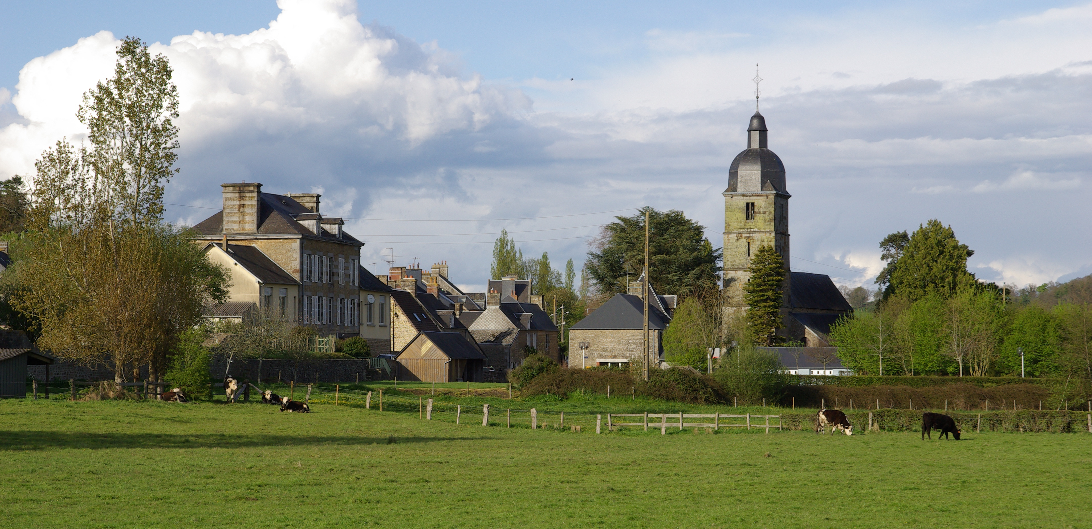 View of Montsecret Orne 61 France